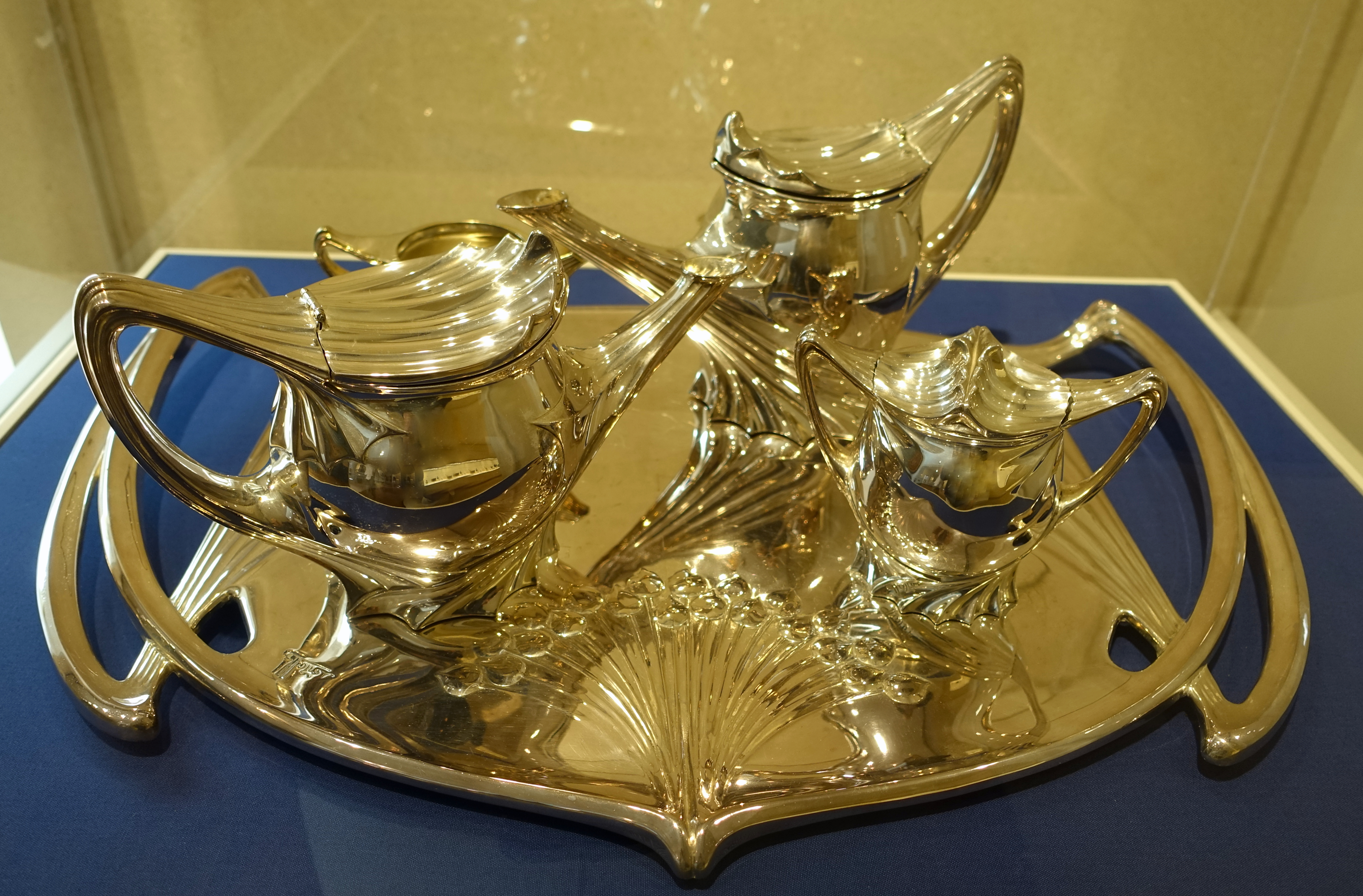 Exhibit in the Dallas Museum of Art, Dallas, Texas, USA.